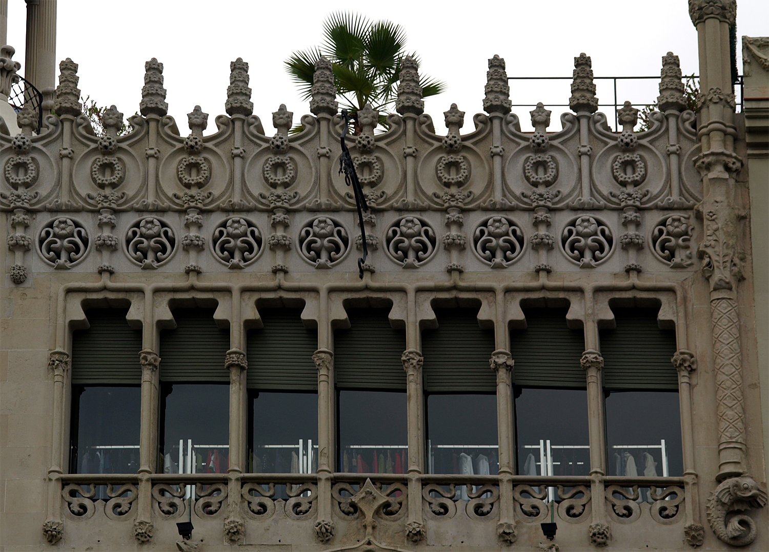 Casa Lleó Morera - Catalan Modernisme (1864, Sociedad Fomento del Ensanche - 1905, Lluís Domènech i Montaner)